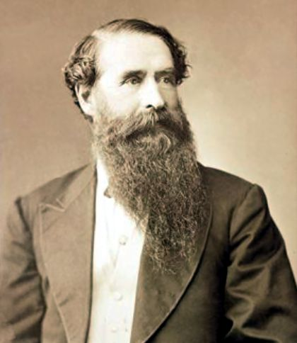 Jeremiah Gurney, albumen print, self portrait